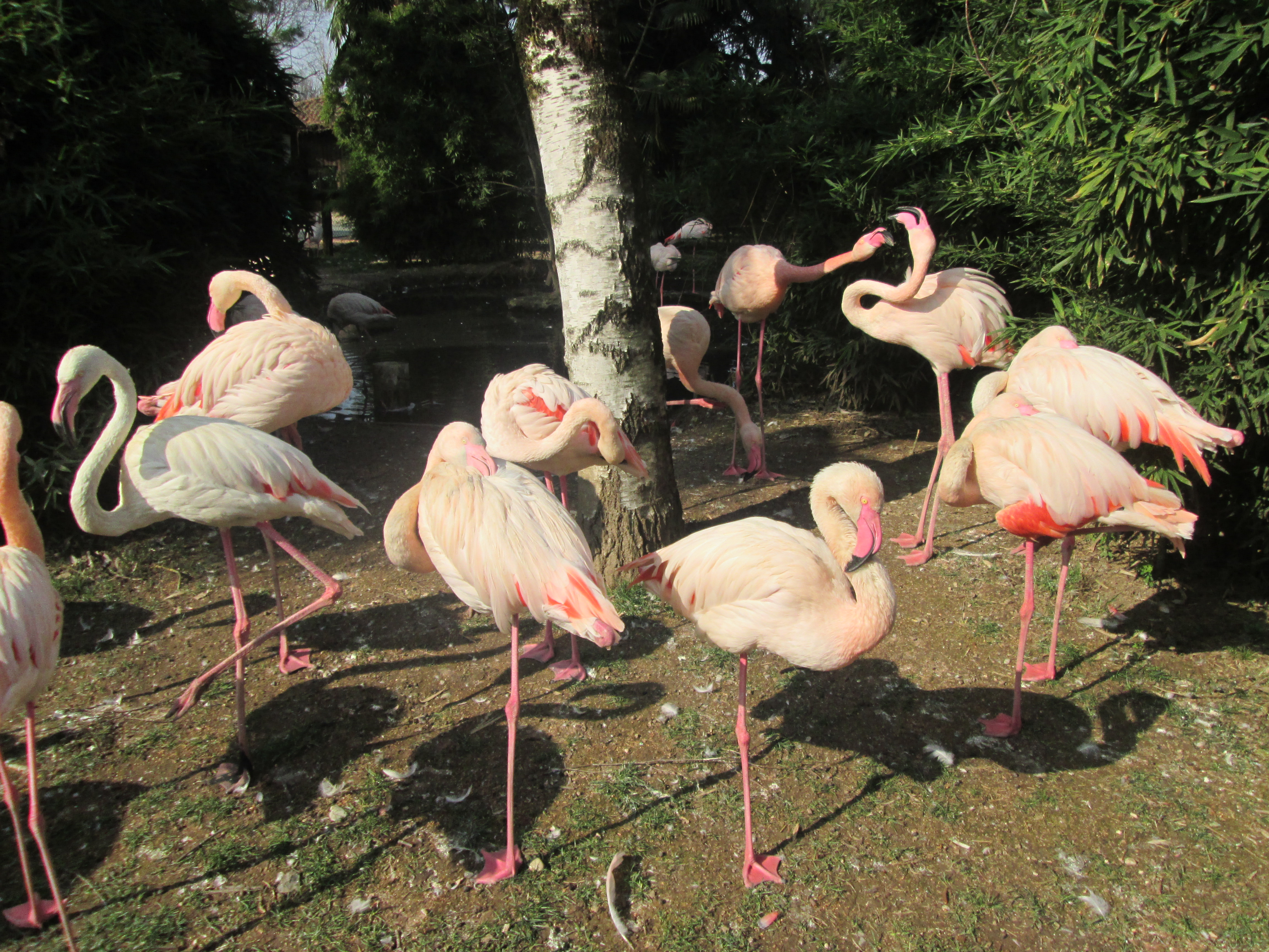 Phoenicopterus roseus at Cornelle Park ITALY